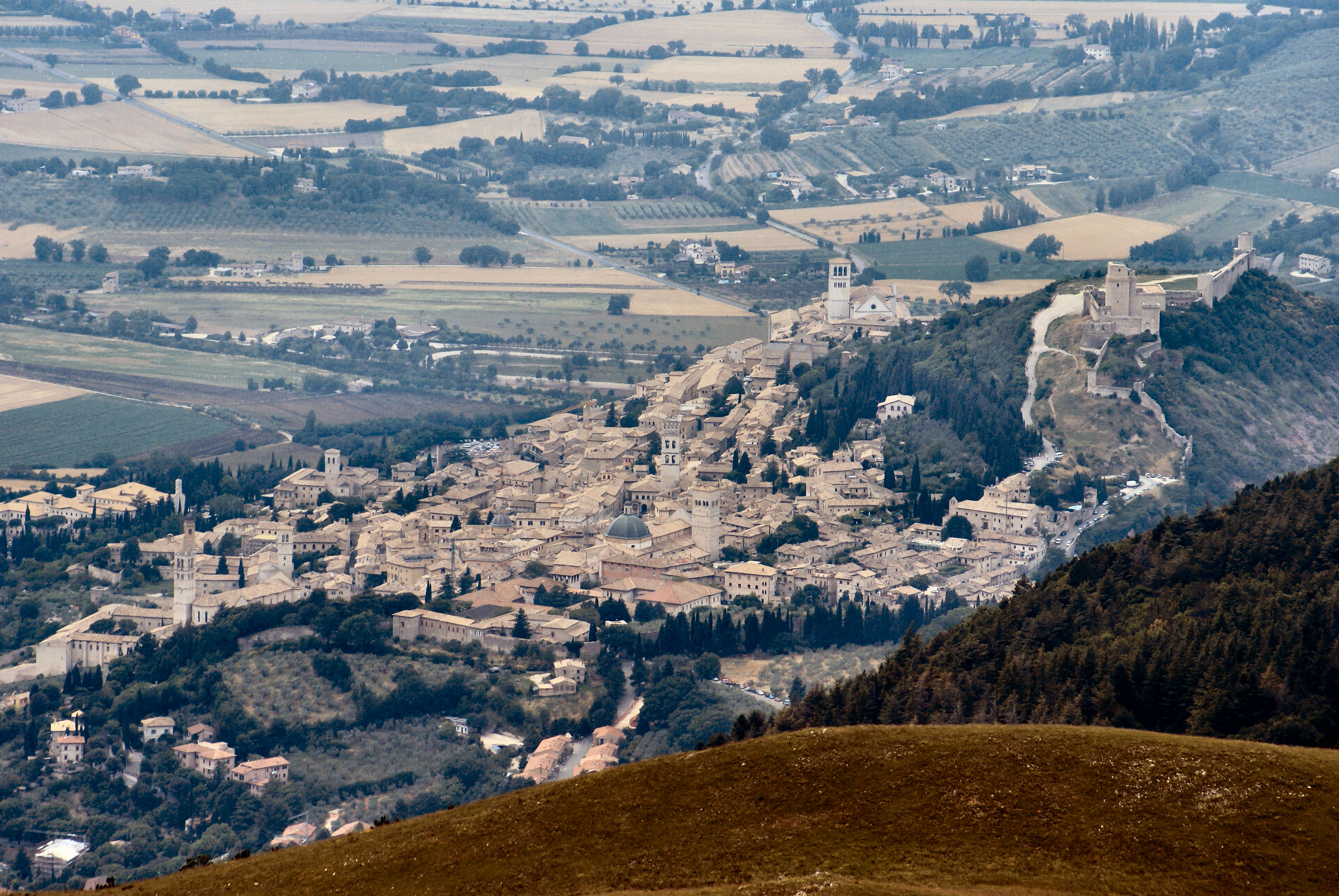 Assisi seen from Monte Subasio